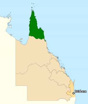 This image incorporates data that is: © Commonwealth of Australia (Australian Electoral Commission) 2009 Division of Leichhardt 2010